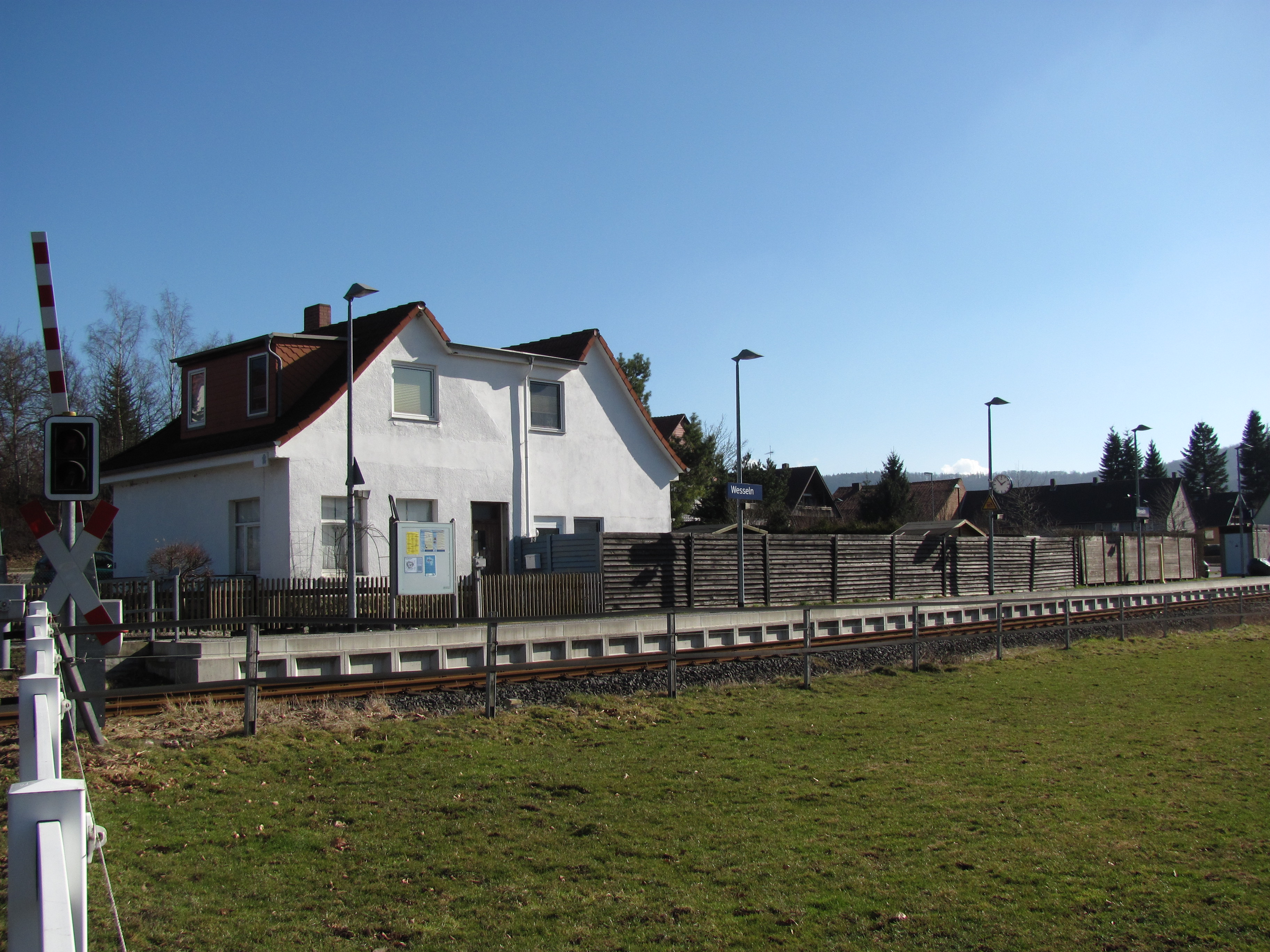 Railway station, Bad Salzdetfurth-Wesseln, Lower Saxony, Germany